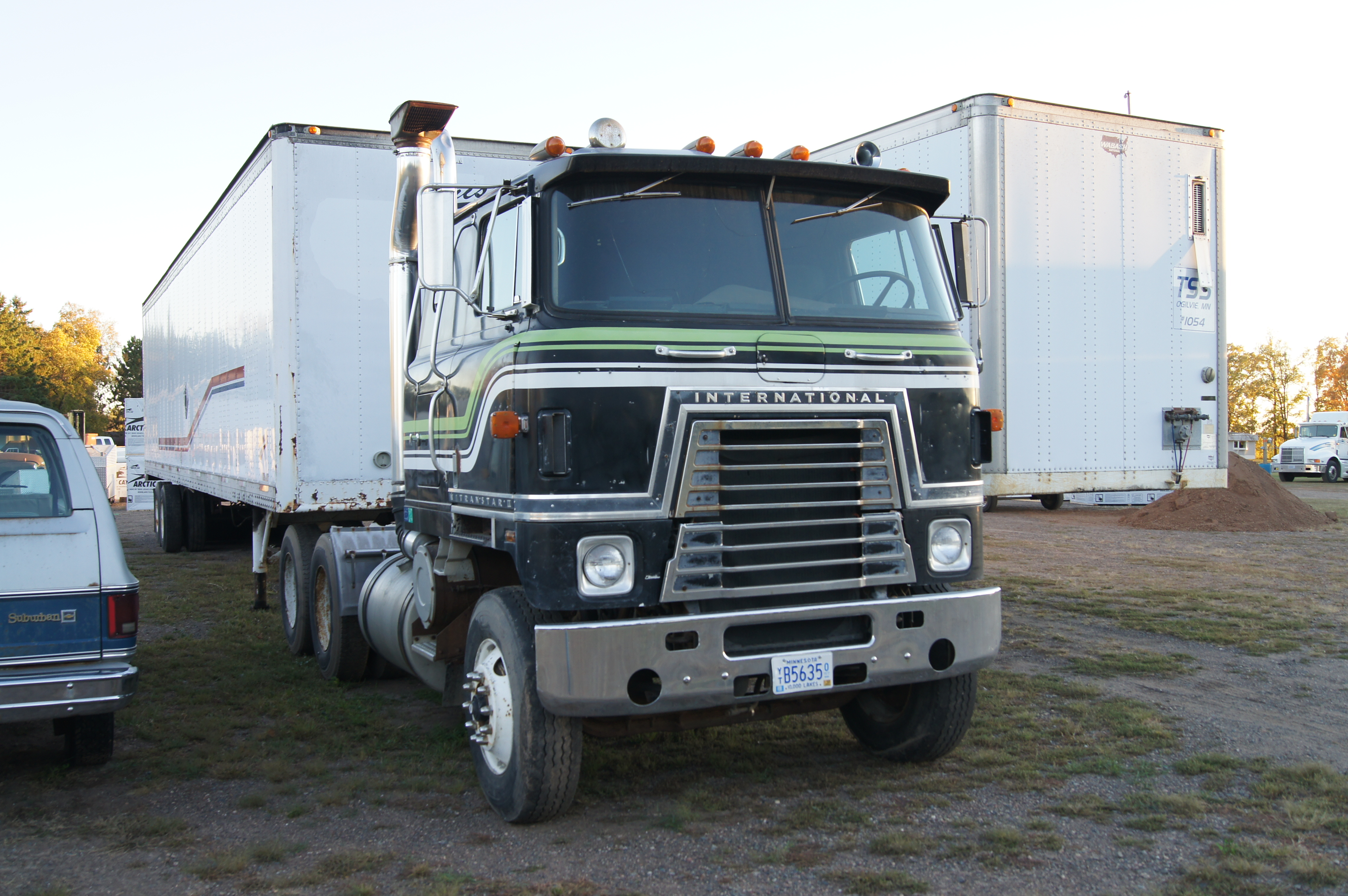 A photograph of an International Transtar II COE semitractor.